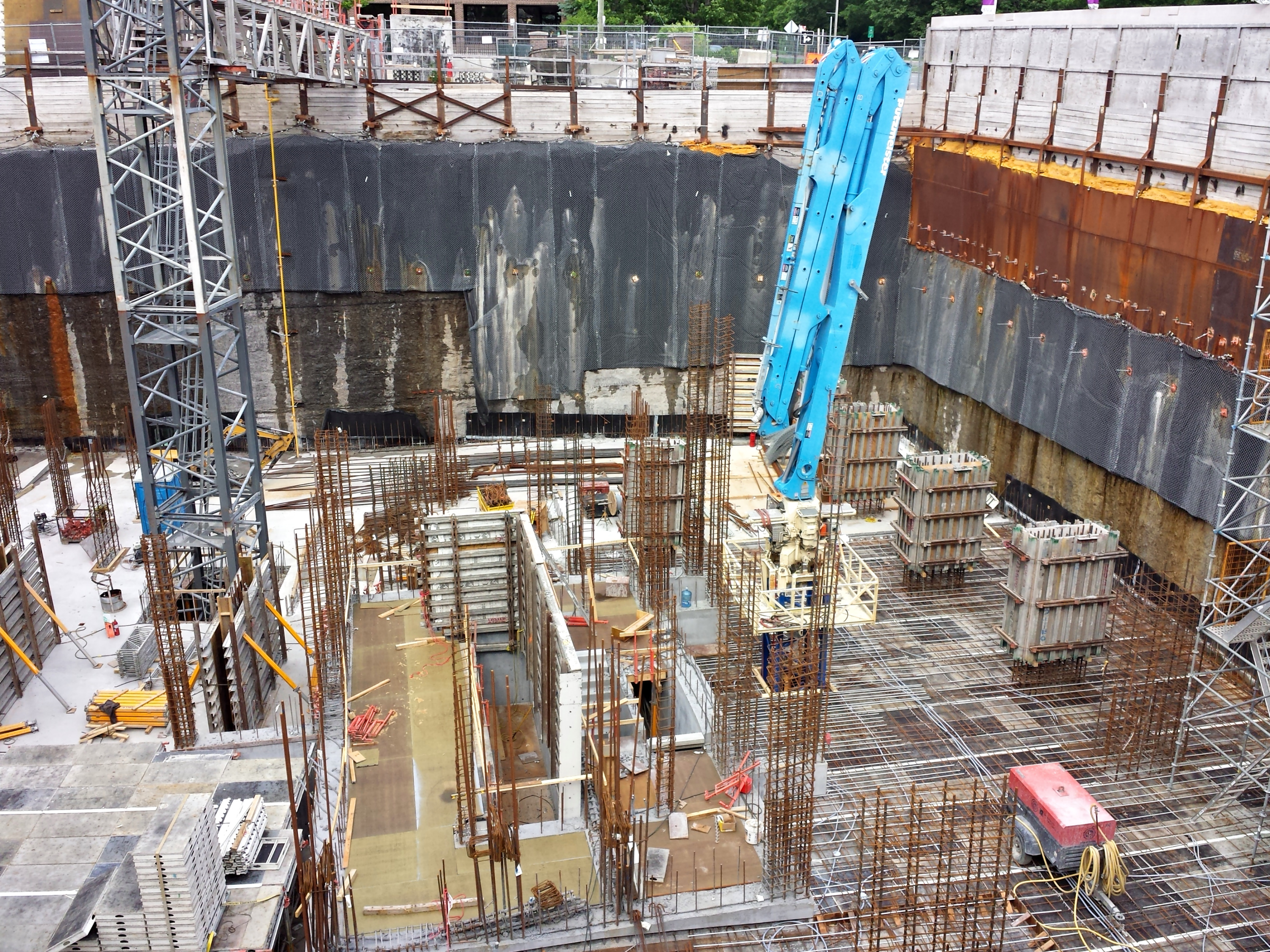 Construction pit of Claridge Icon, 505 Preston Street, Ottawa, Ontario, Canada